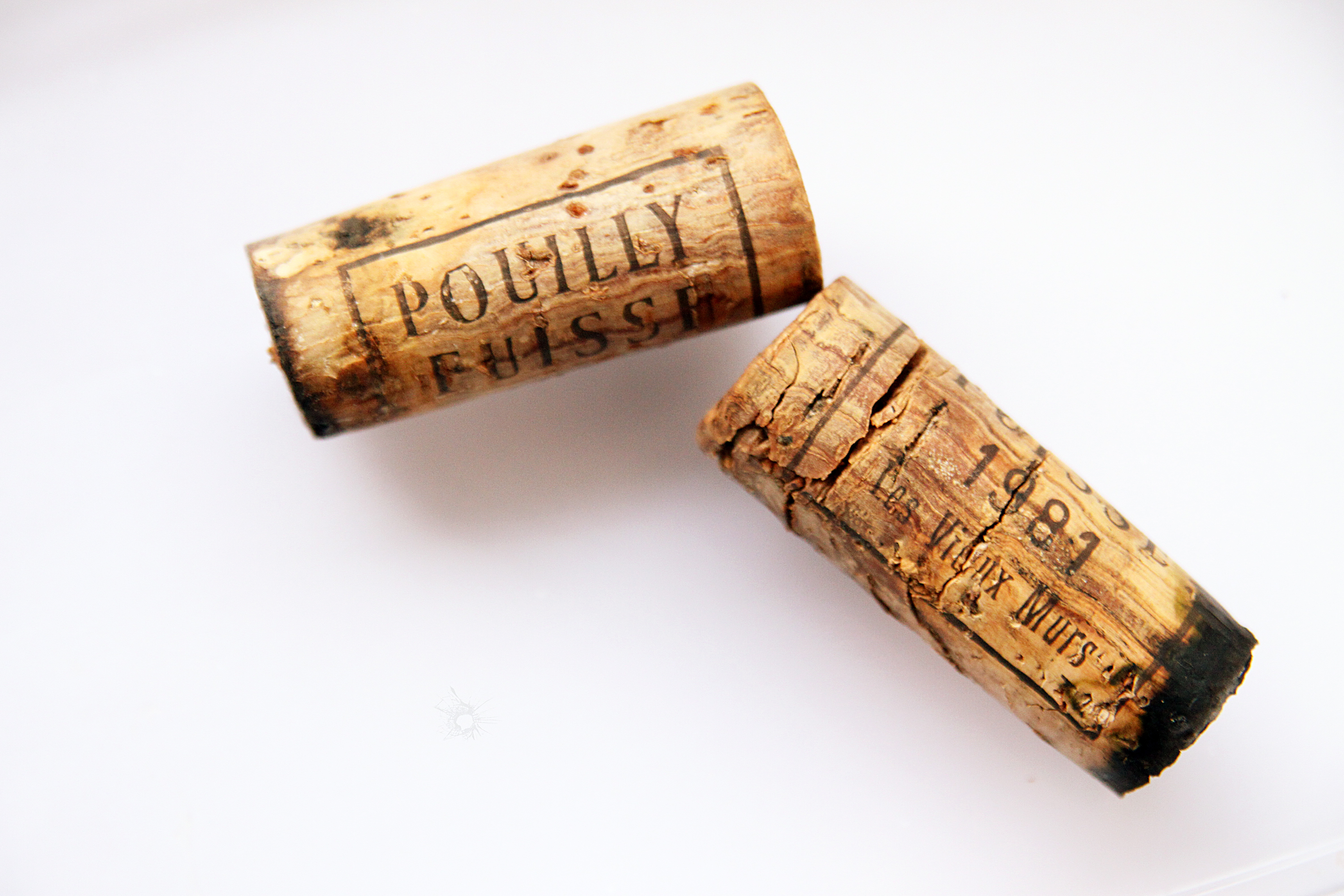 Old cork